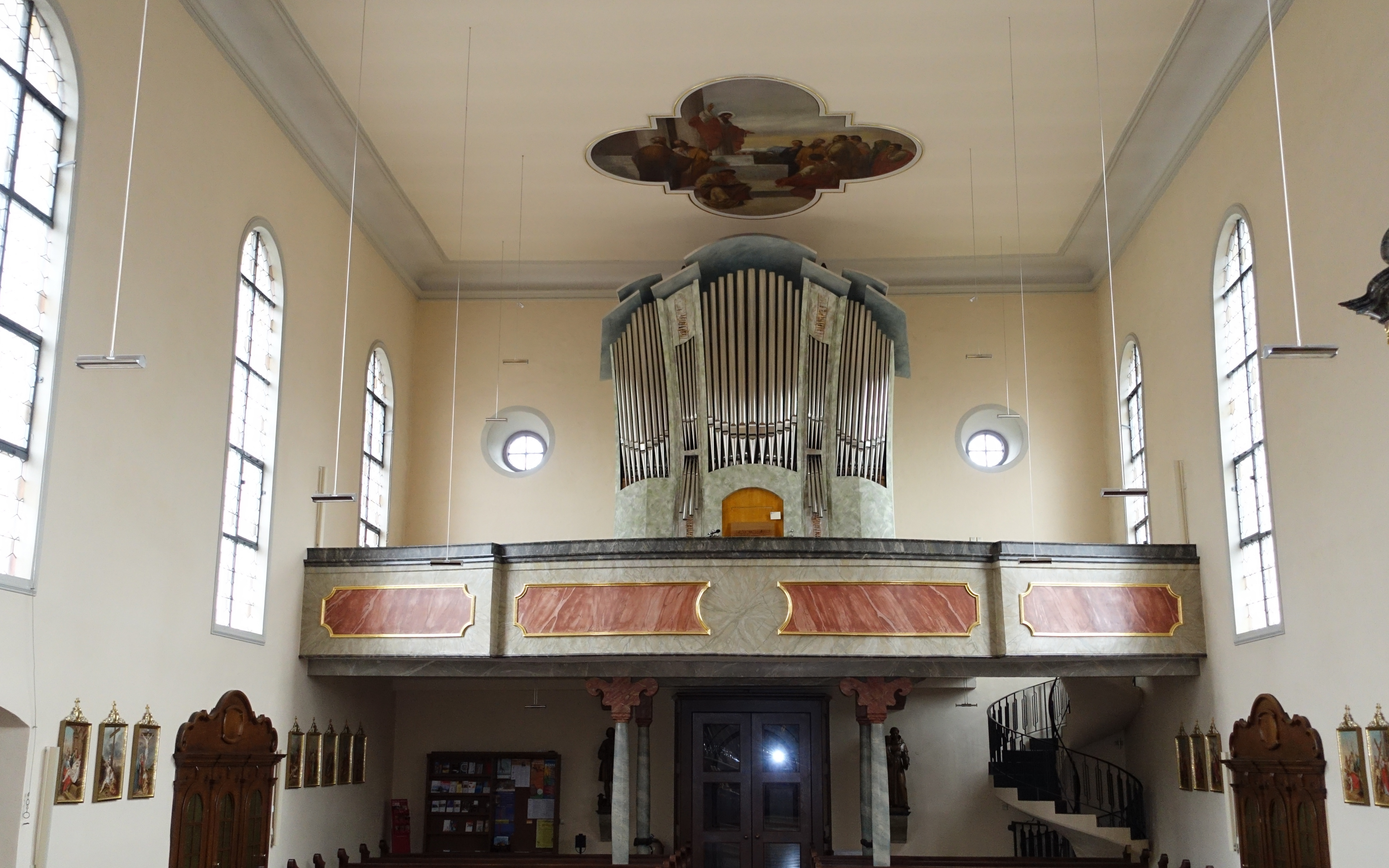 St. Peter und Paul, Welschensteinach, Ortenaukreis, Baden-WÜrttemberg,interior towards west